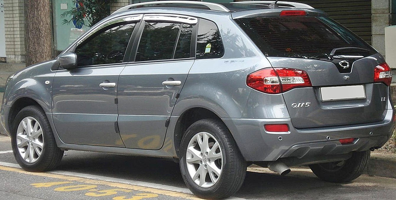 Renault Samsung QM5